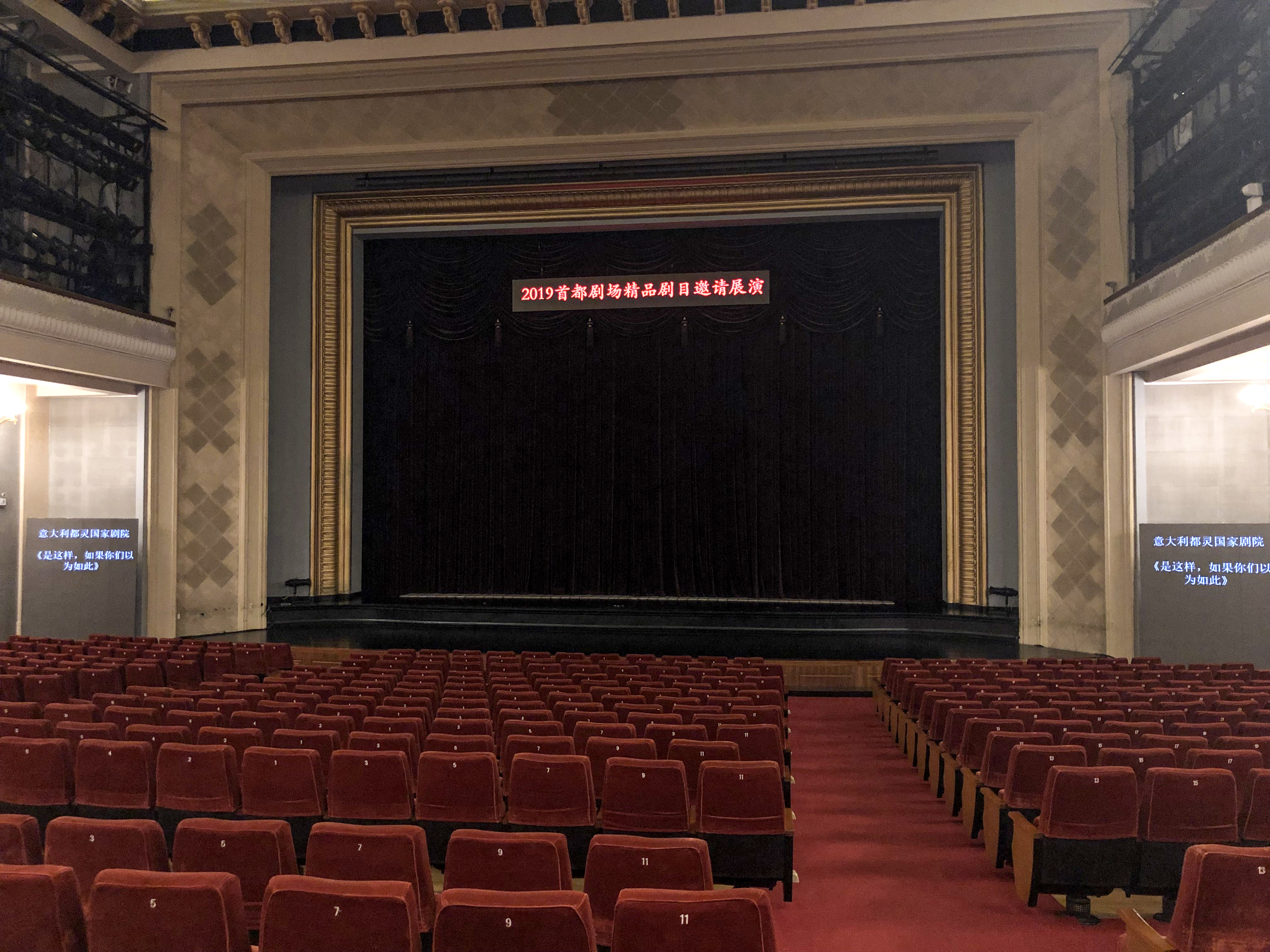 Così è (se vi pare), an Italian play, known in English as Right You Are (if you think so), and 《是这样，如果你们以为如此》 in Chinese.